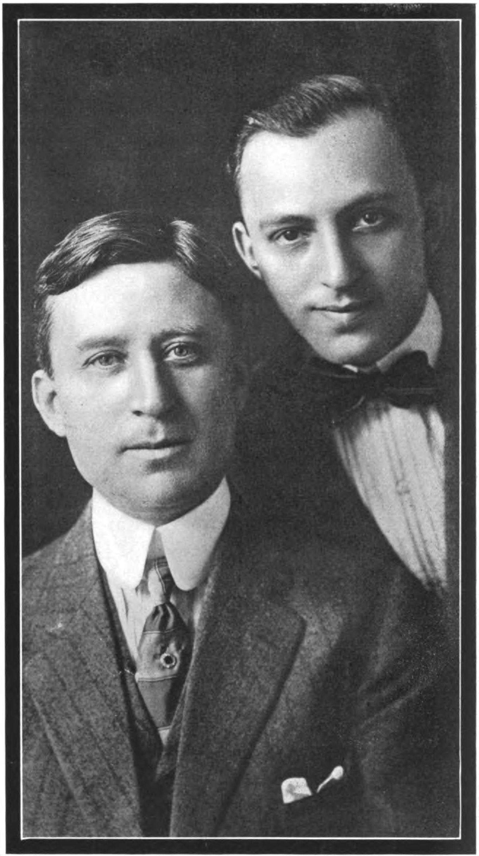 William Jerome and Jean Schwarz were an American song-writing team.